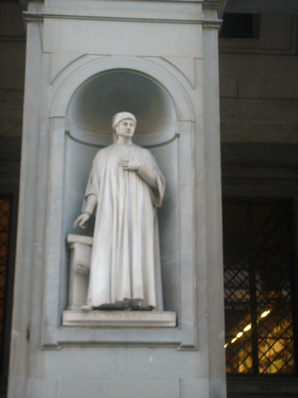 Accursius. Statues on the facade of the Uffizi Gallery, Florence. Famous florentine.